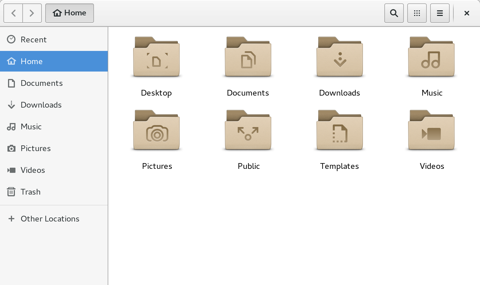 GNOME Files showing a home folder.